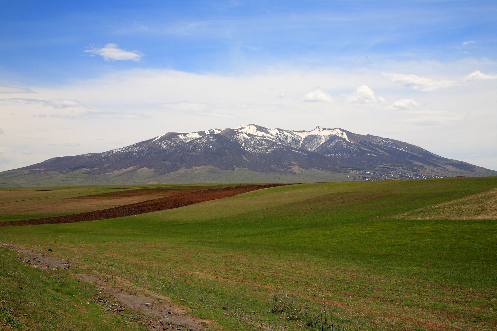 Ara mountain, Aragatsotn, Armenia.